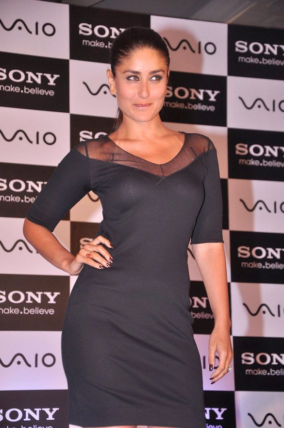 Kareena kapoor vaio launch